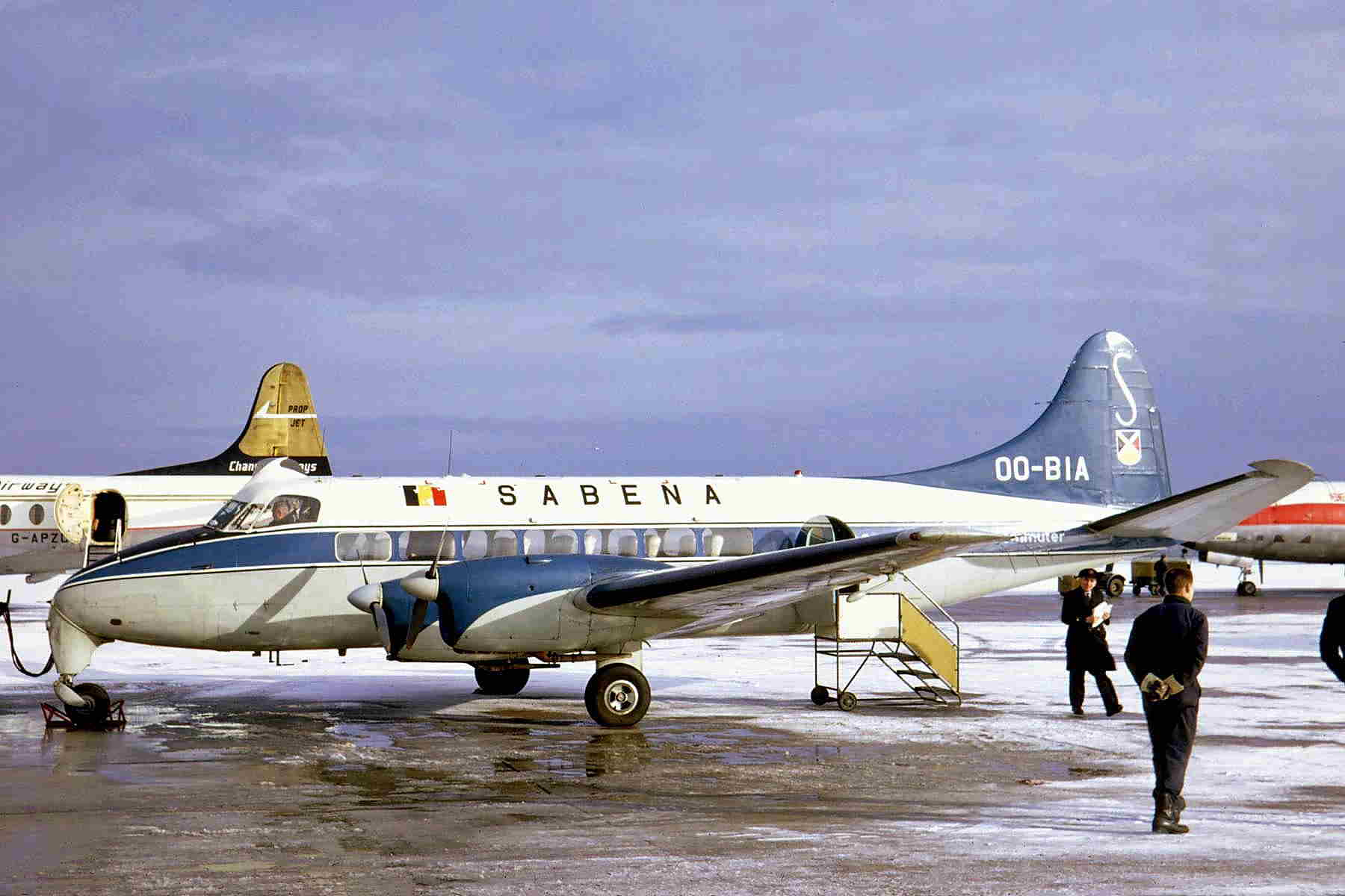 A snowy January day in Rotterdam (RTM), BIAS operated this Heron for Sabena in 1967